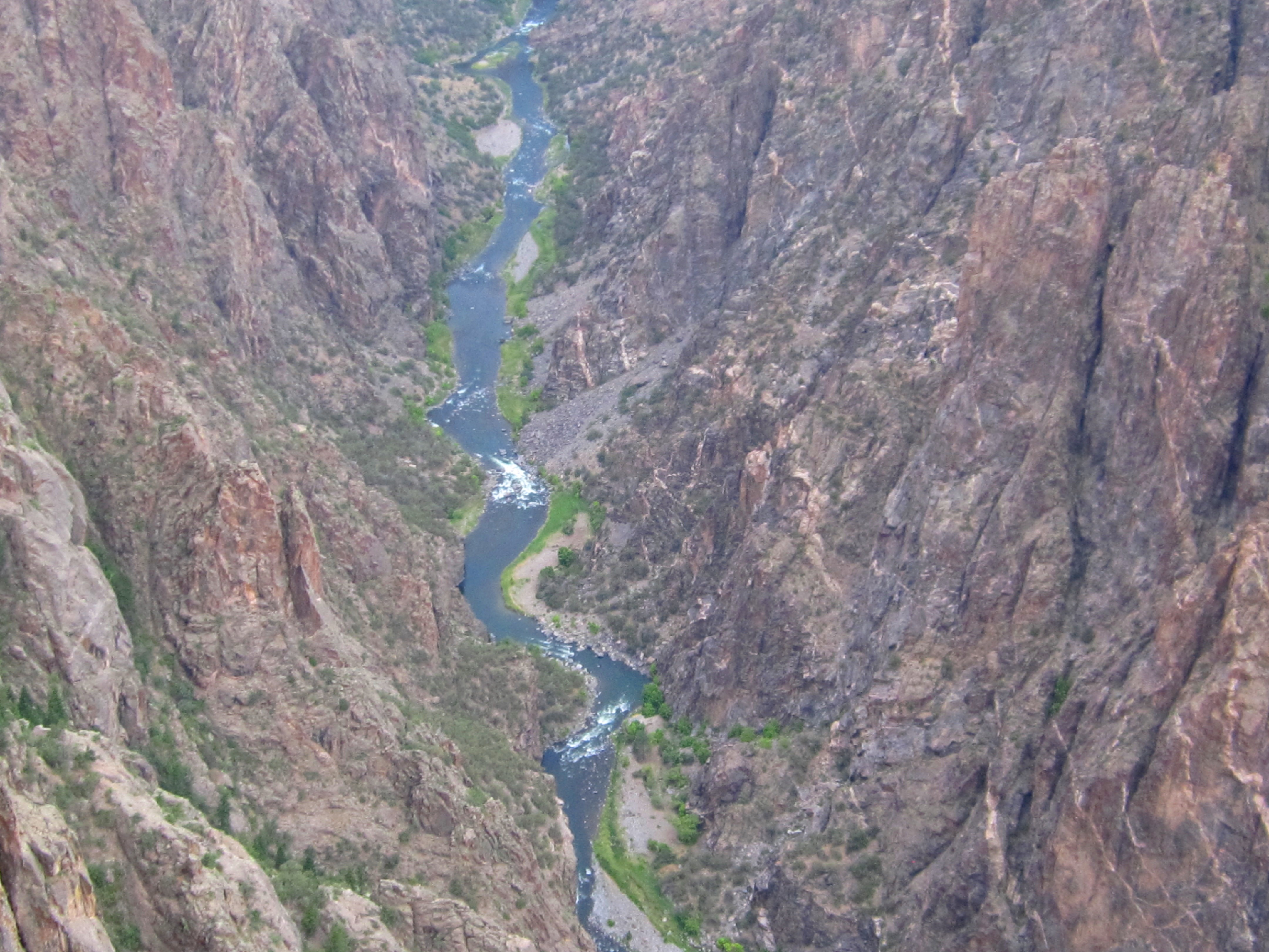 Gunnison River